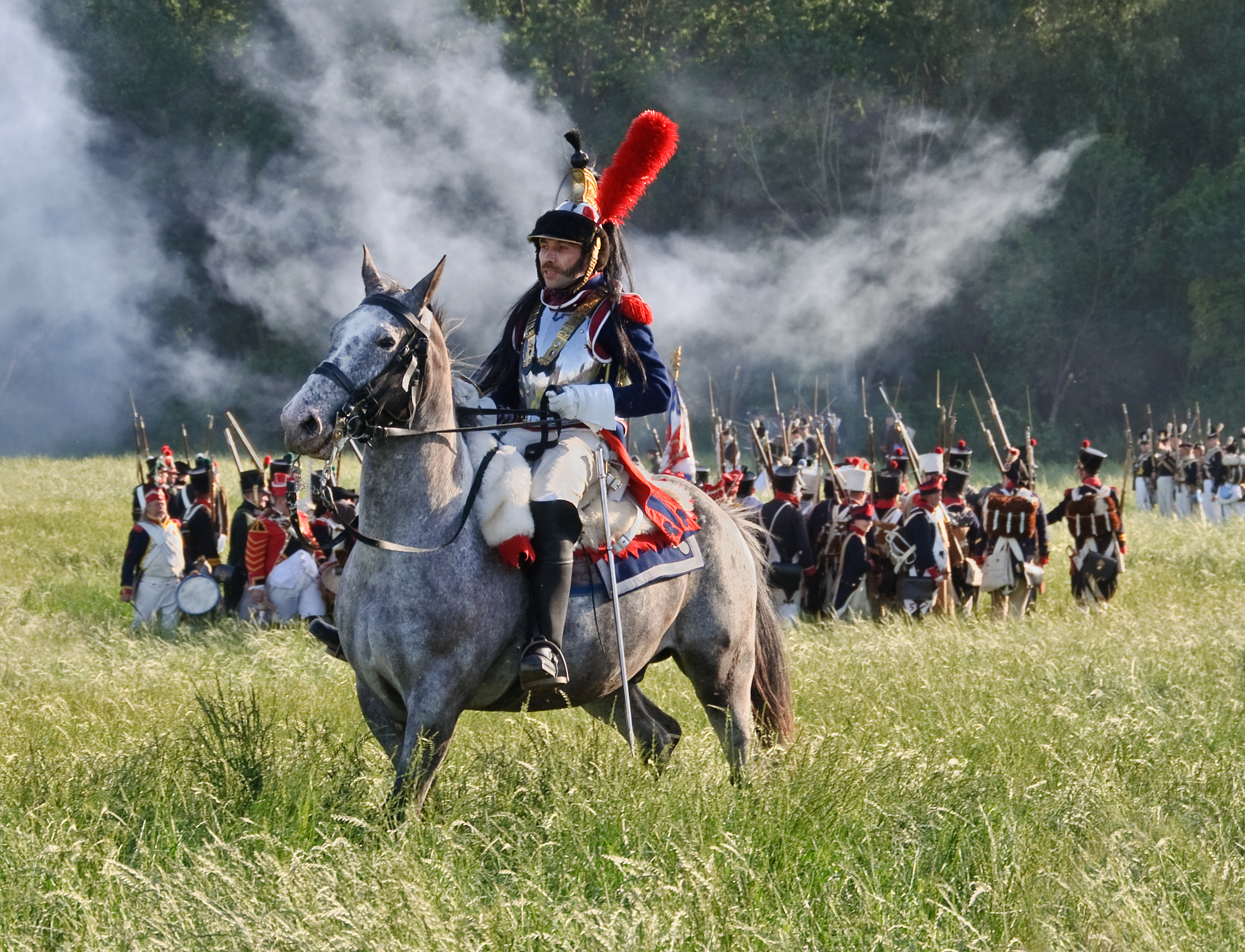 French cuirassier during the re-enactment of the battle of Waterloo (1815), in June 2011, Waterloo, Belgium.